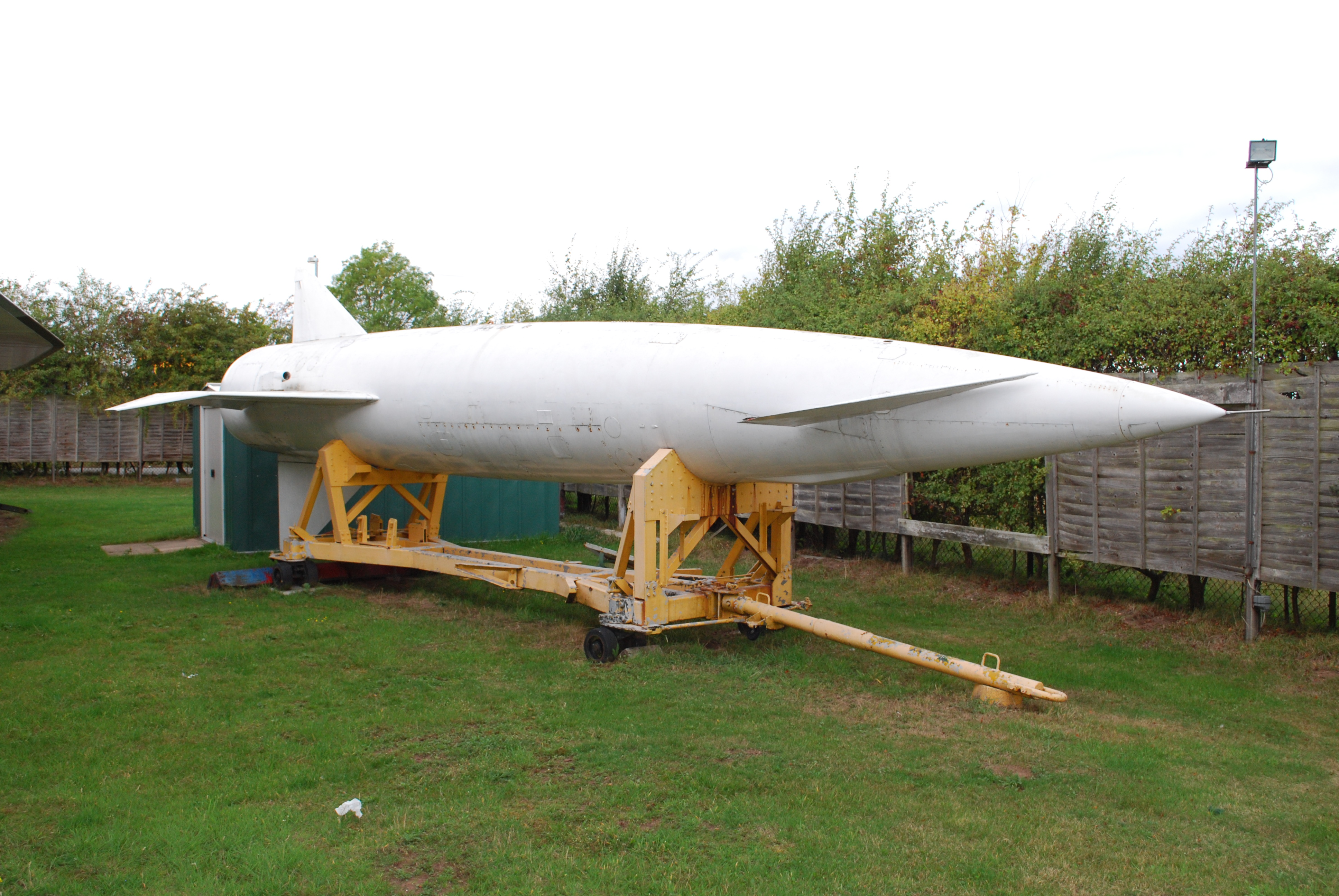 Blue Steel air launched nuclear stand-off mssile carried by Vulcans at the Midland Air Museum, Coventry, 9/11.